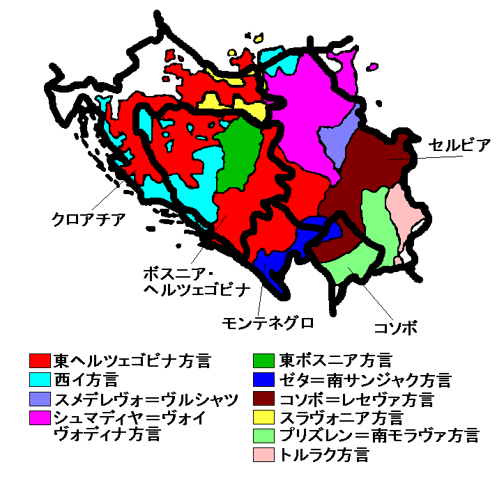 Map of subdiarects of Shtokavian dialect of Serbo-Croatian language